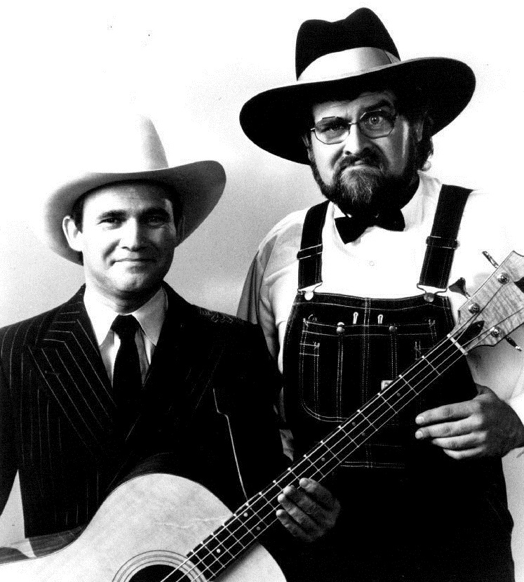 press photo of Pinkard & Bowden in 1985